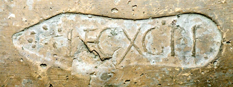 Tile with footprint of a caliga with inscription LEG(io) X G(emina) P(ia) F(idelis).